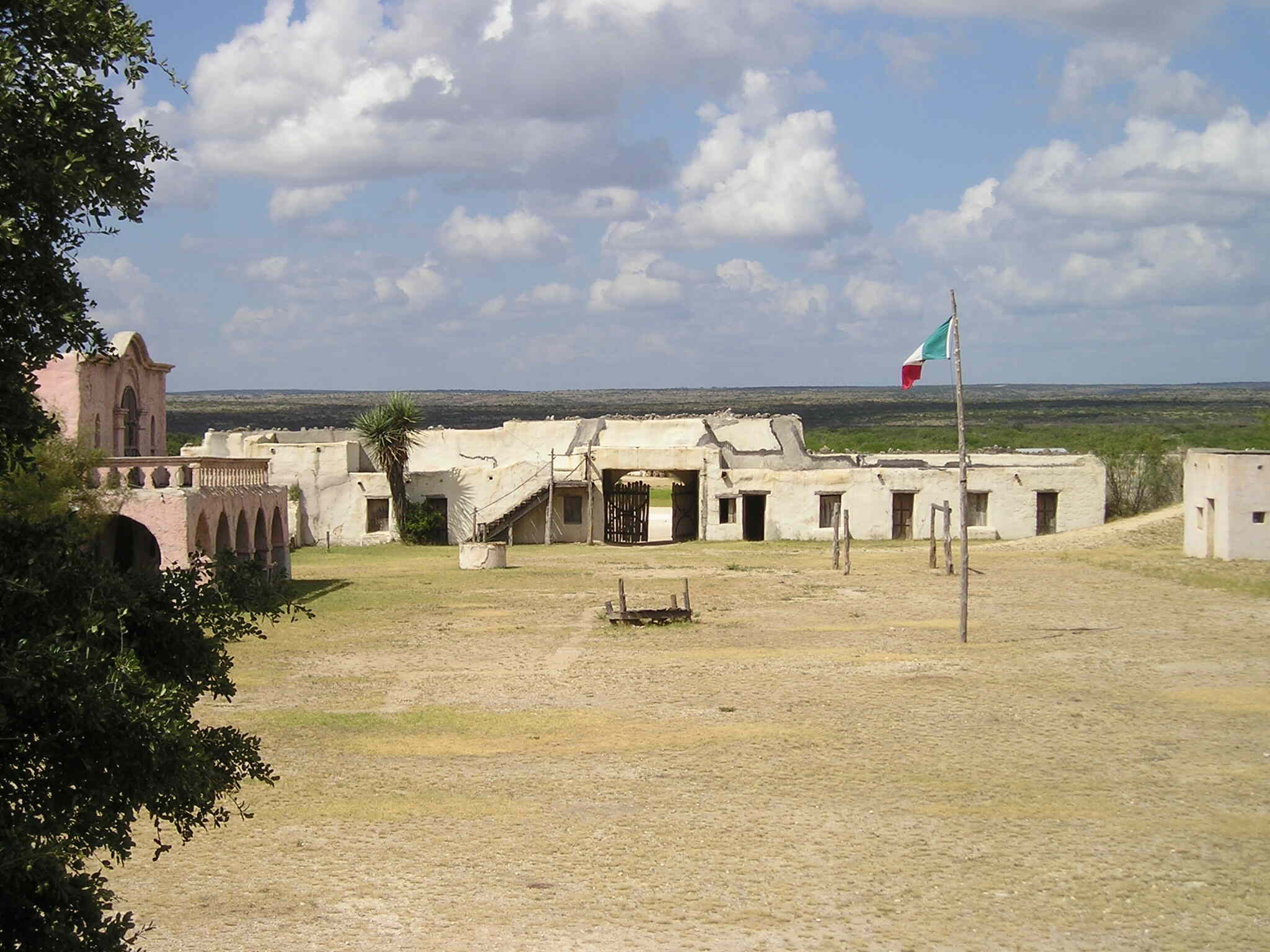 Alamo Village, an active movie set and tourist attraction north of Brackettville, Texas